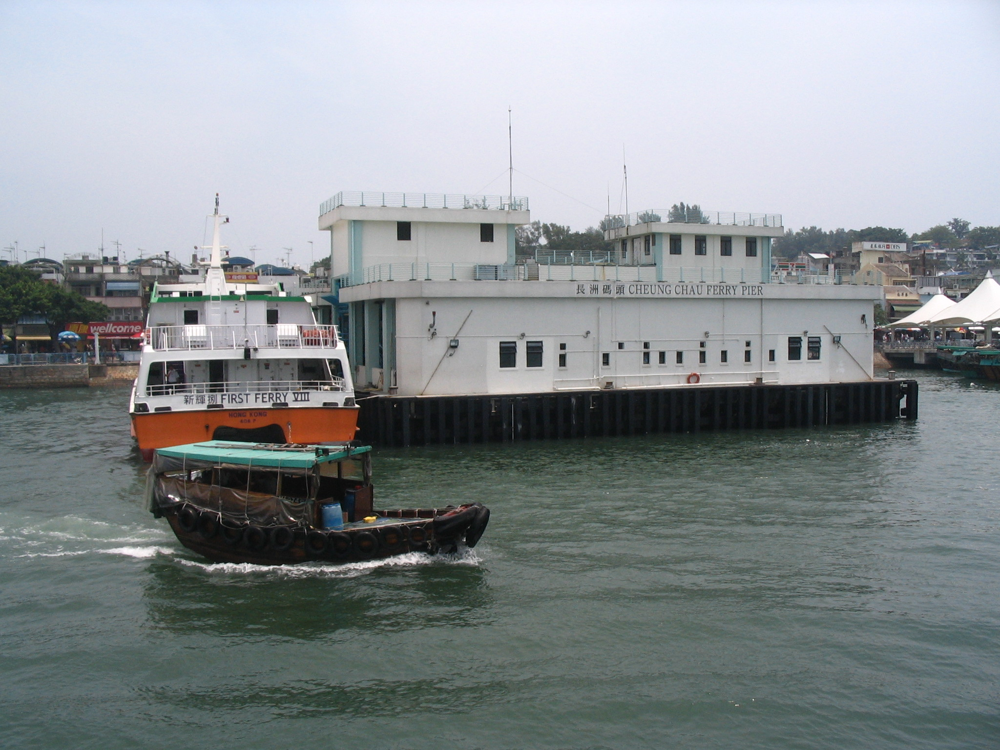 Photo of Cheung Chau Ferry Pier